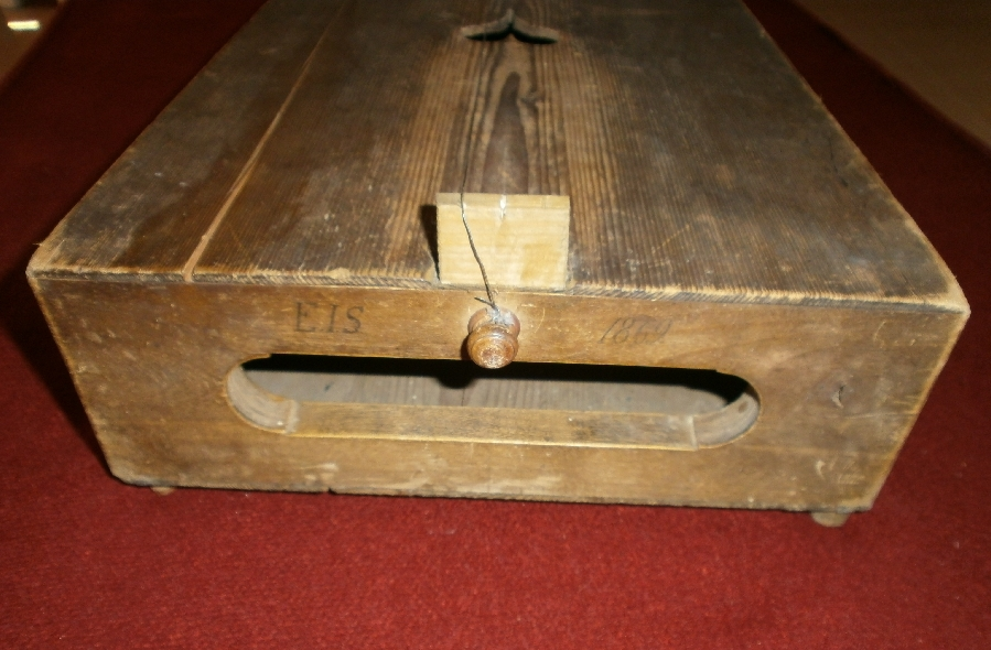 Psalmodicon, sound hole.